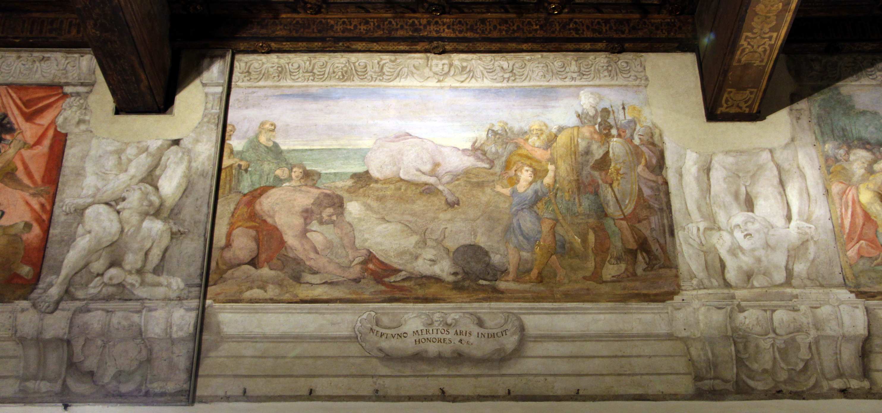 Frieze of Aeneas by the Carracci family